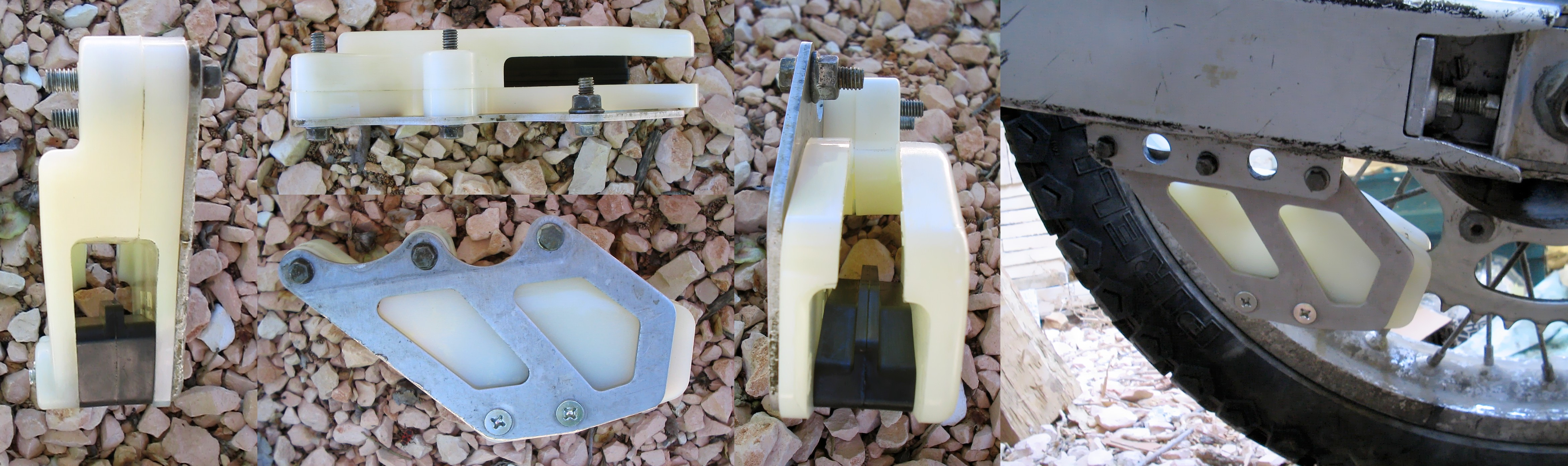 Chain eye, seen from different angles, to the right you can see the eye mounted on the swingarm.